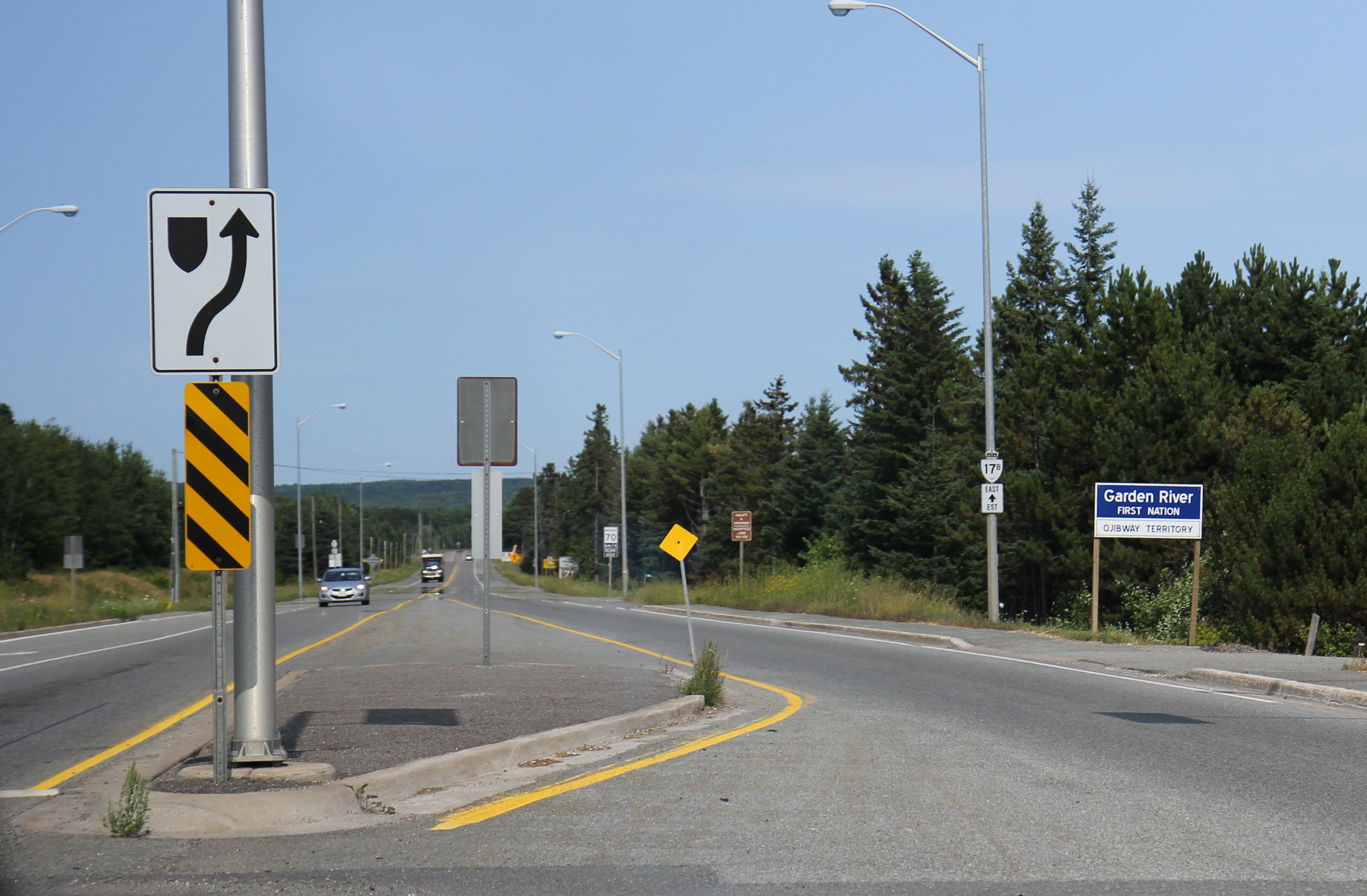 The Garden River First Nation sign on Ontario 17B near Sault Ste. Marie. The sign was installed after a dispute between the tribe and the province. The tribe has installed this sign prior.